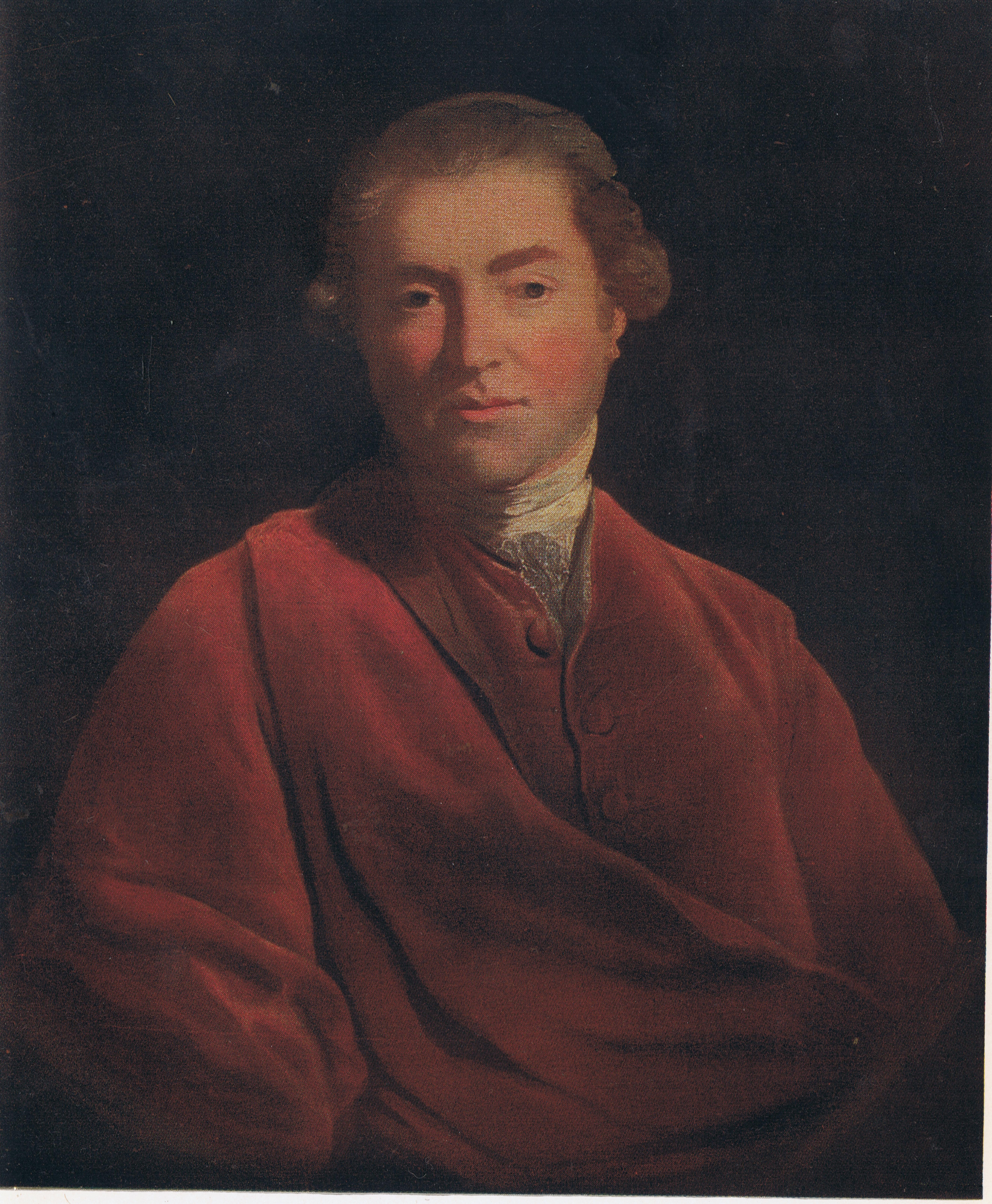 Robert Mayne (1724-1782), MP for Upper Gatton, by Joshua Reynolds, circa 1776.Painting is illustrated in Catalogue of Pictures in the Tennant Gallery, 34 Queen Anne's Gate, S.W., 1910. The Tennant family acquired the portrait from Mayne's grandson Henry Blair Mayne, Esq., of Duke Street, St. James's. Other information See the print after this painting by George H. Every, published by Henry Graves & Co., mezzotint, published 1865 (circa 1775).8 7/8 in. x 6 7/8 in. (226 mm x 176 mm) plate size. In 1865 the portrait still belonged to Henry Blair Mayne. Robert Mayne died suddenly in August, 1782. In 1775 he had married Sarah, third daughter and co-heiress of Francis Otway, Esq., of River-Hill, near Sevenoaks, by whom he had issue four sons.